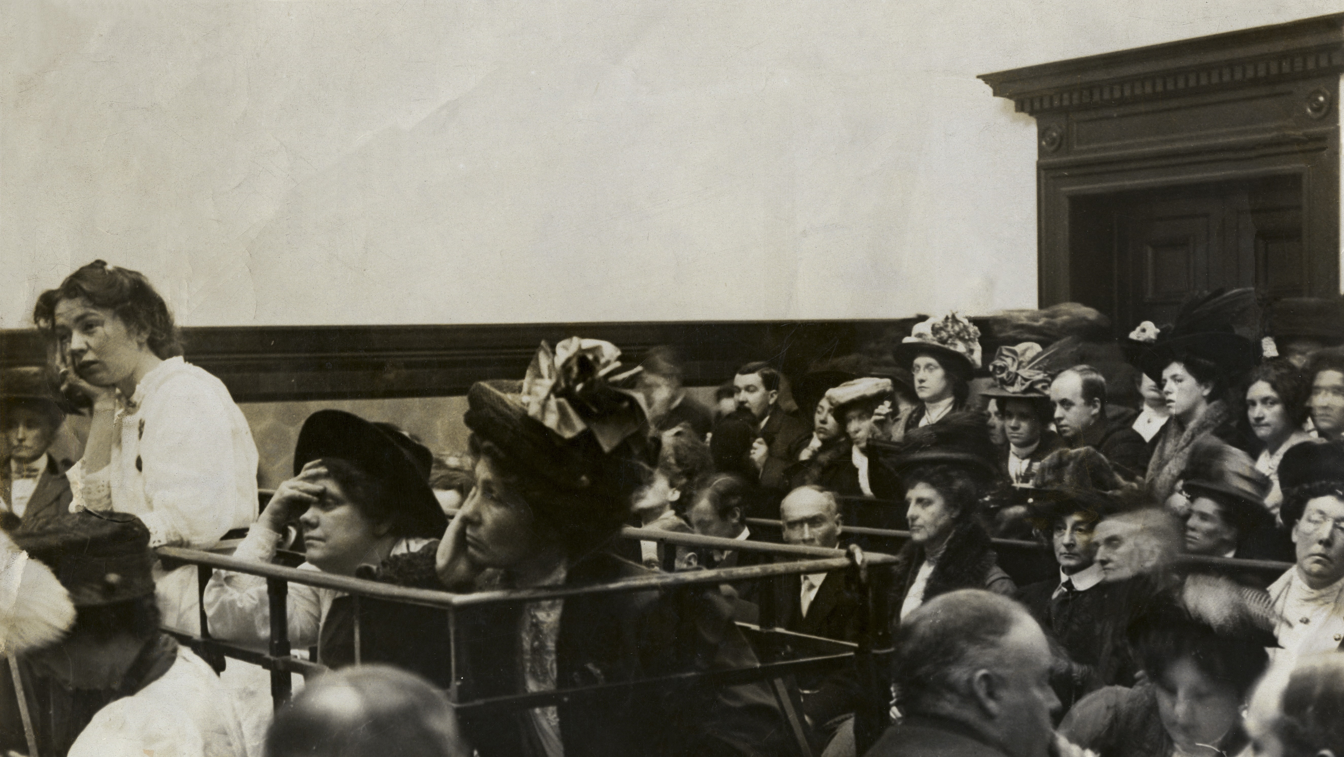 7JCC/O/02/060 Photograph, printed, paper, monochrome, Christabel Pankhurst, Flora Drummond and Emmeline Pankhurst seated in the dock in a crowded courtroom; manuscript inscriptions on reverse '1908 Bow St. For asking people to rush the House of Commons. Christabel and Mrs Pankhurst, centre Mrs Drummond. During the trial for Sedition in Bow Street. Conspiracy Trial Oct 1908'